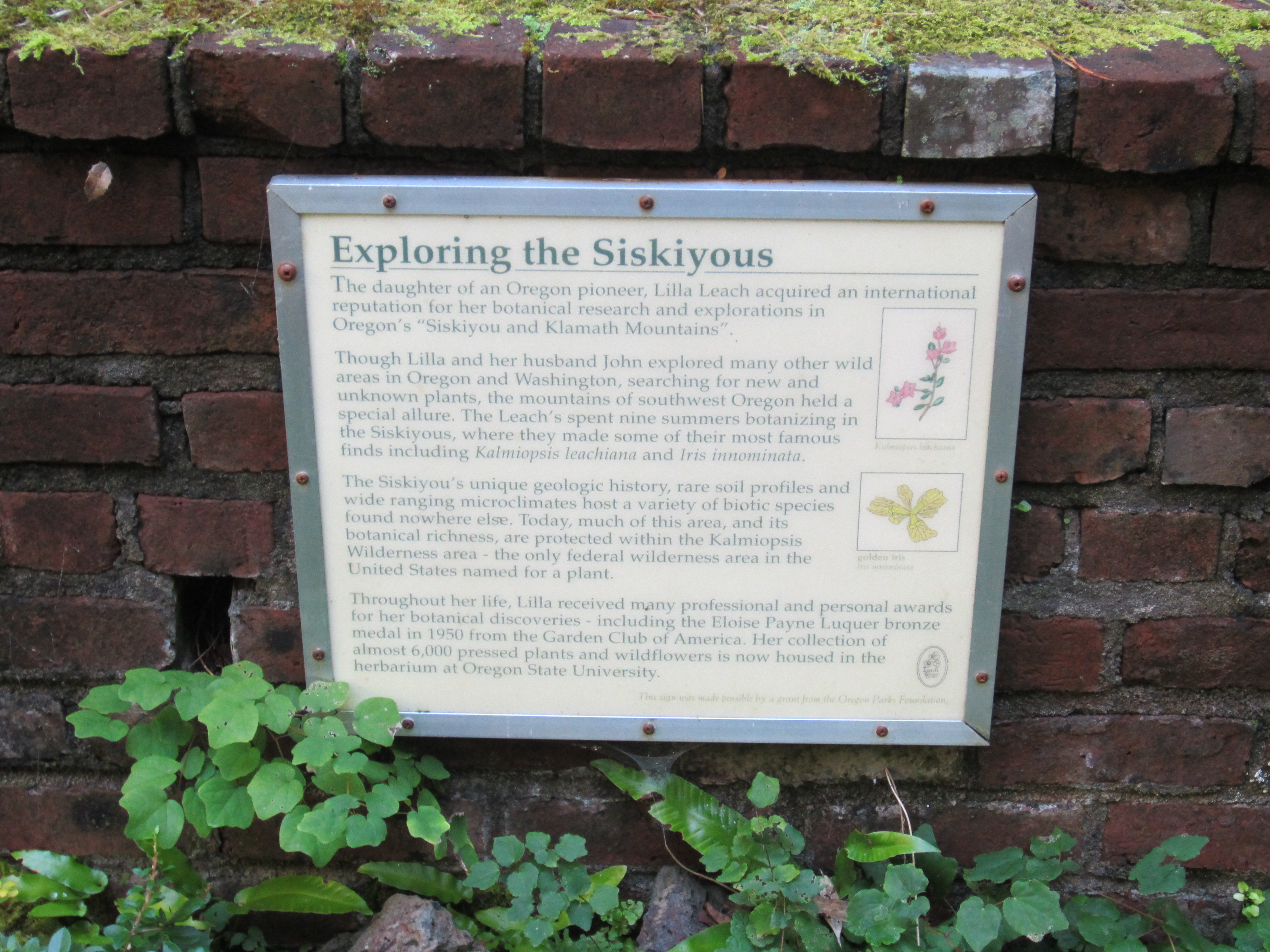 Leach Botanical Garden, Oregon (2013)